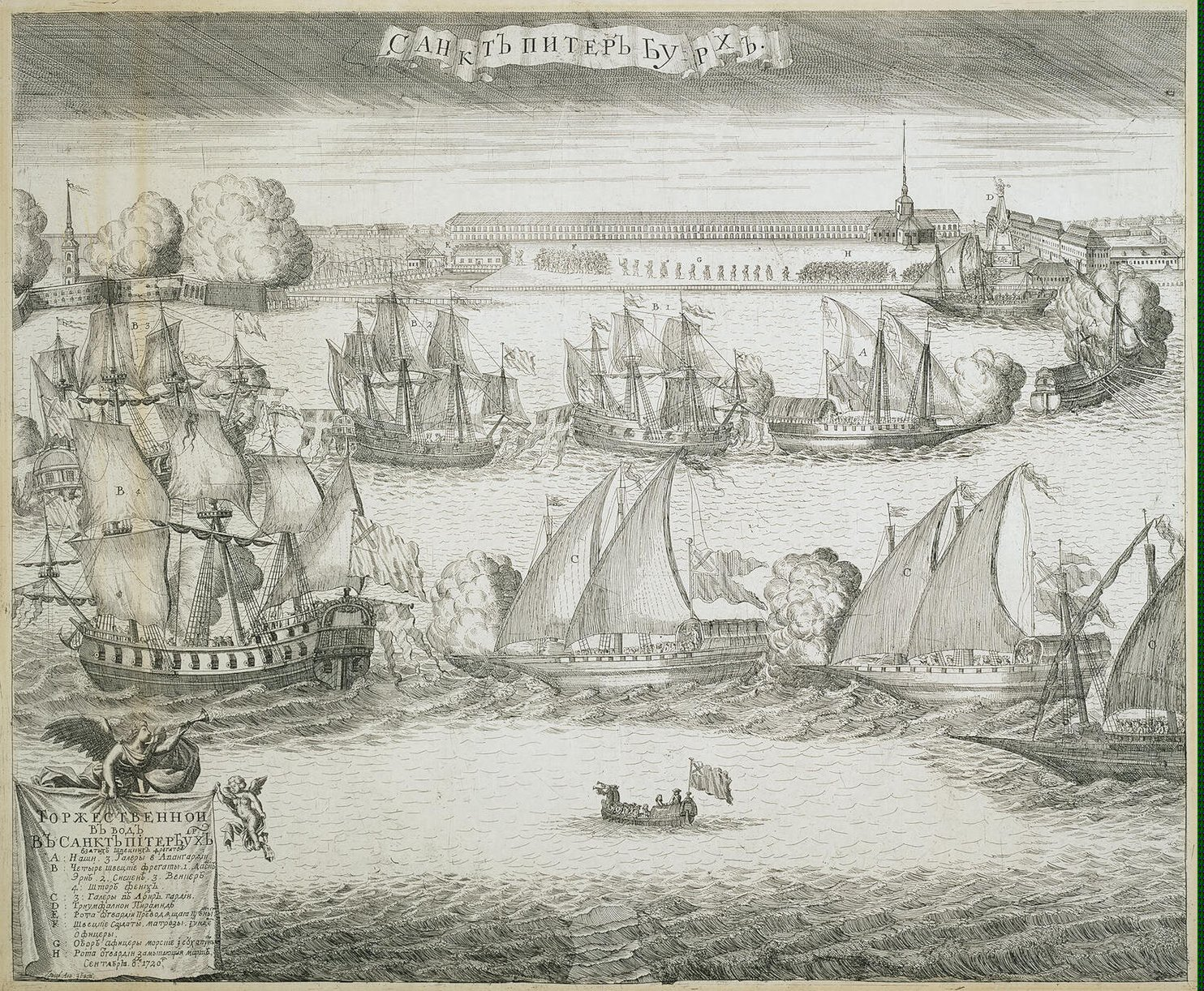 Ceremonial Entrance of Four Swedish Frigates to the Neva after the Victory of Grengam, September 8 1720. Etching, chisel. 49.6 x 59.3 cm. State Hermitage Museum, St. Petersburg, Russia.